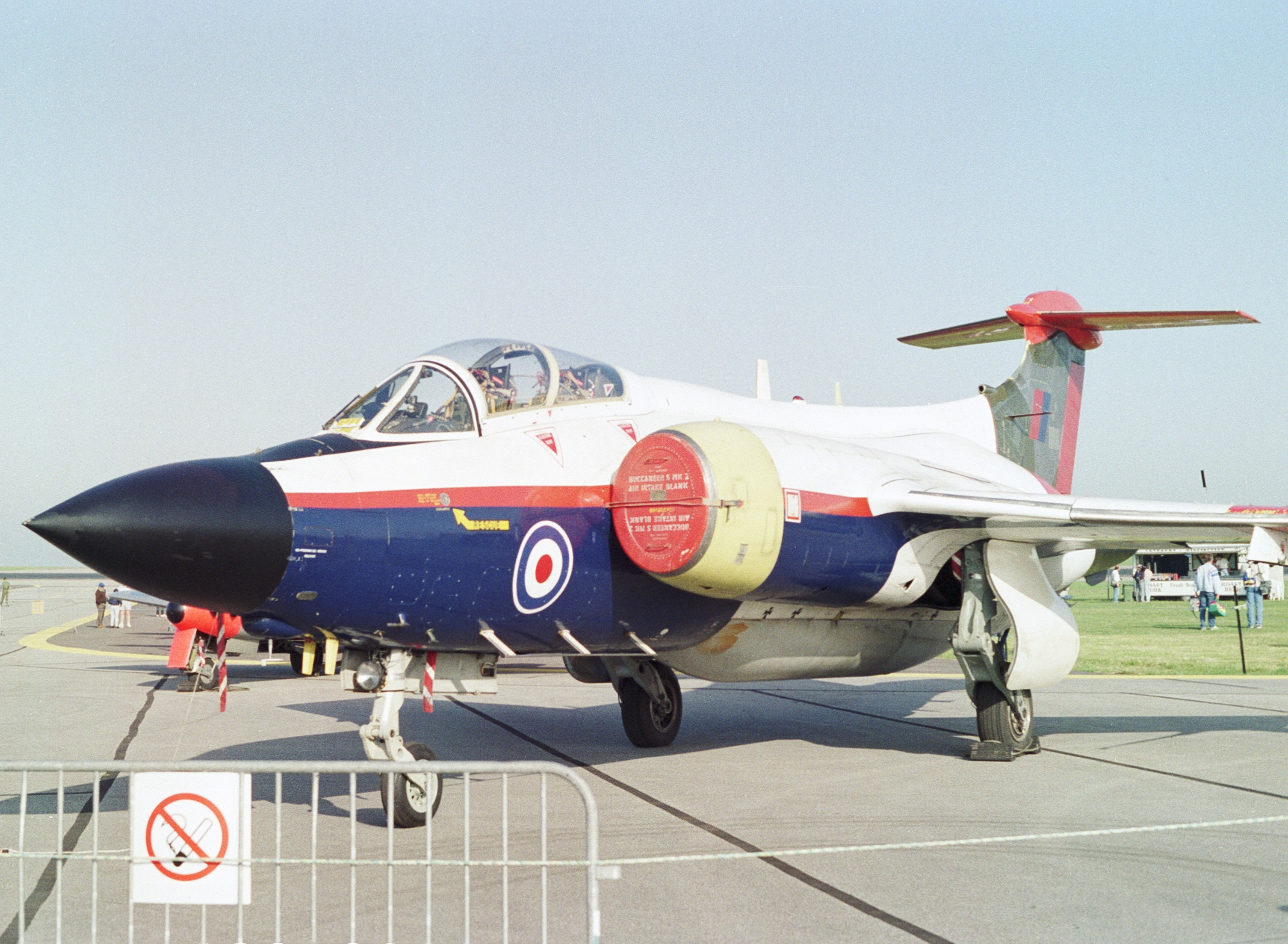 Air Tattoo International, RAF Boscombe Down - UK, June 13 1992.